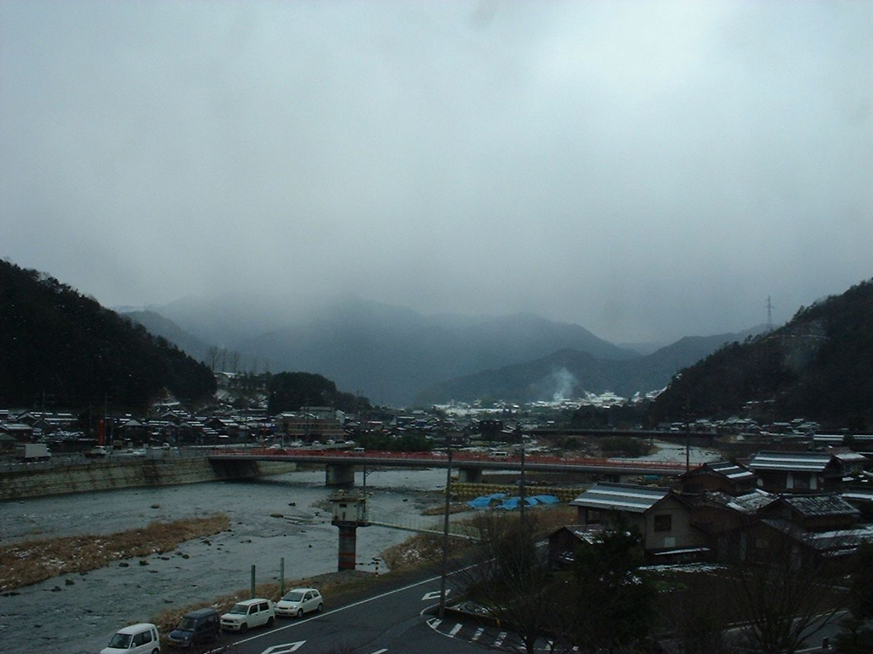 Sendai River viewed from Mochigase, Tottori, Tottori Prefecture